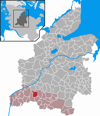 Locator maps of municipalities in Schleswig-Holstein - District Rendsburg-Eckernförde